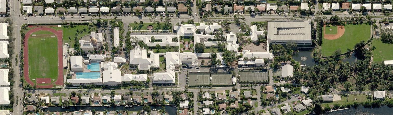 Aerial view taken from helicopter